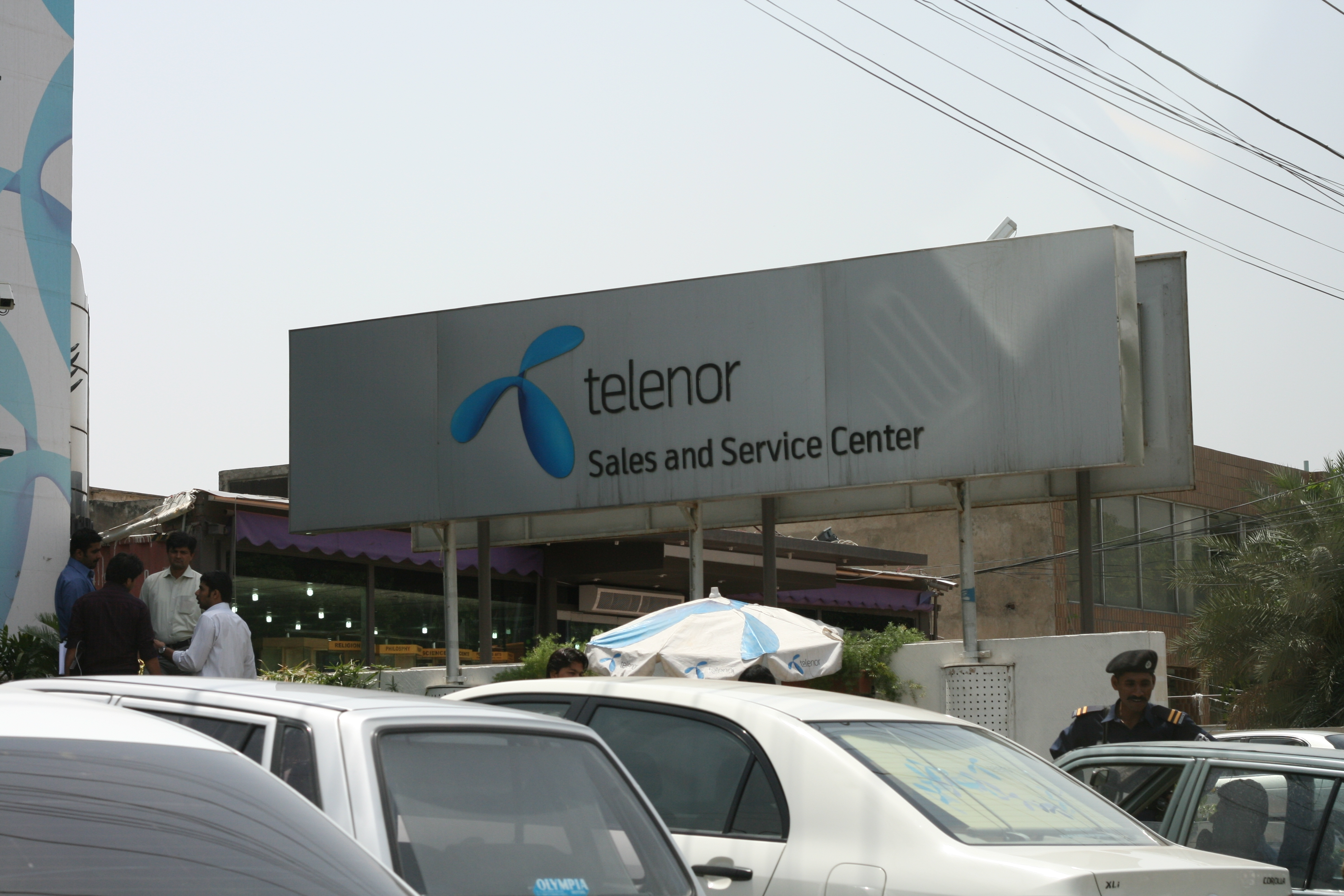 Picture of Telenor Pakistan's Sales and Service Center Norsk (bokmål): Bilde av Telenor Pakistans Salg og service senter